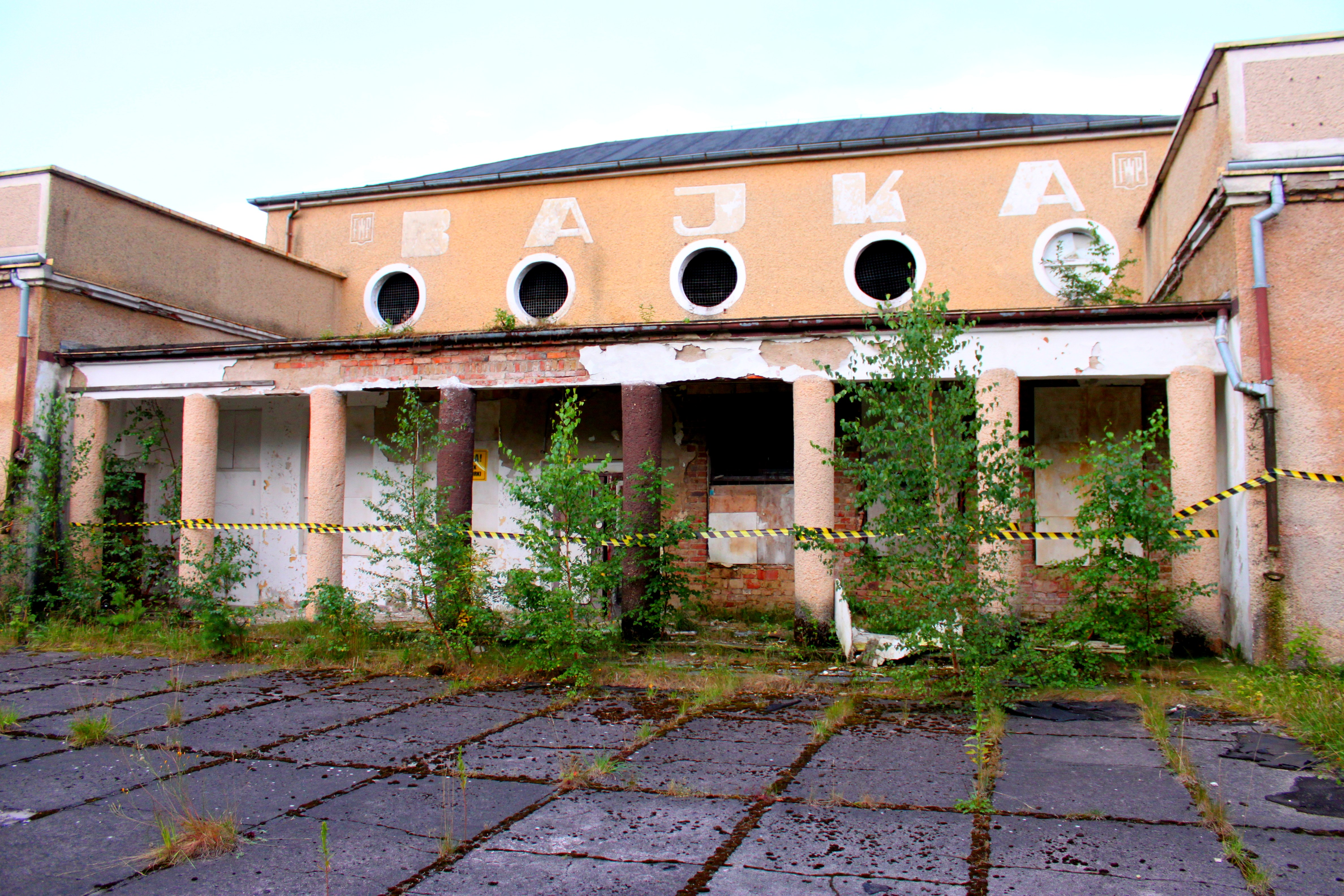 Bajka (Pol. fairy-tale) in Pobierowo, Poland. Built in Polish People's Republic before 1957 [2]. Old common room for children, then club cafe, then disco dancing hall, finally abandoned. Demolished in February 2013.